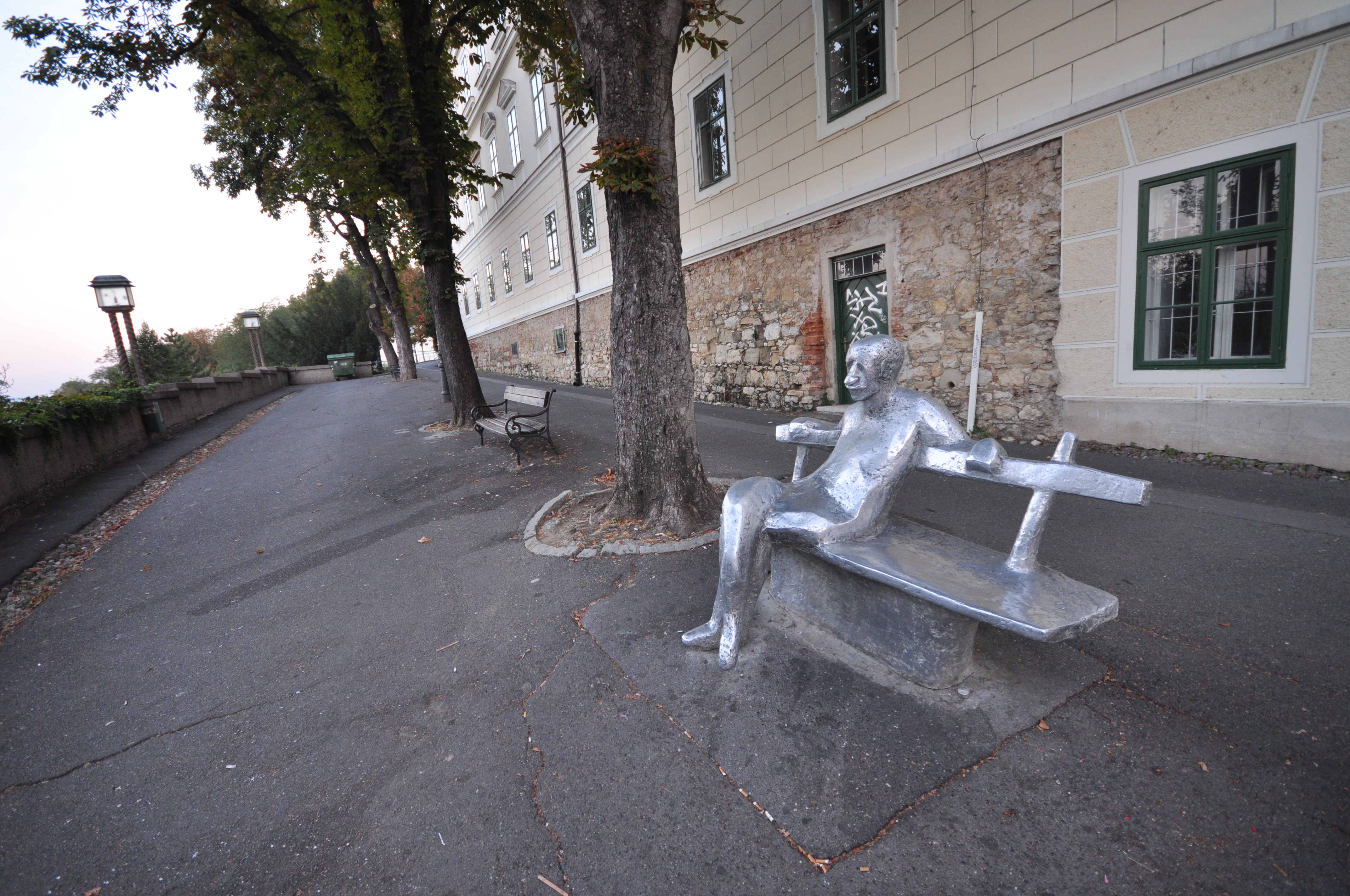 Statue of a poet Antun Gustav Matoš (1873-1914) sitting on a bench, at Strossmayer promenade, made by sculptor Ivan Kožarić in 1978